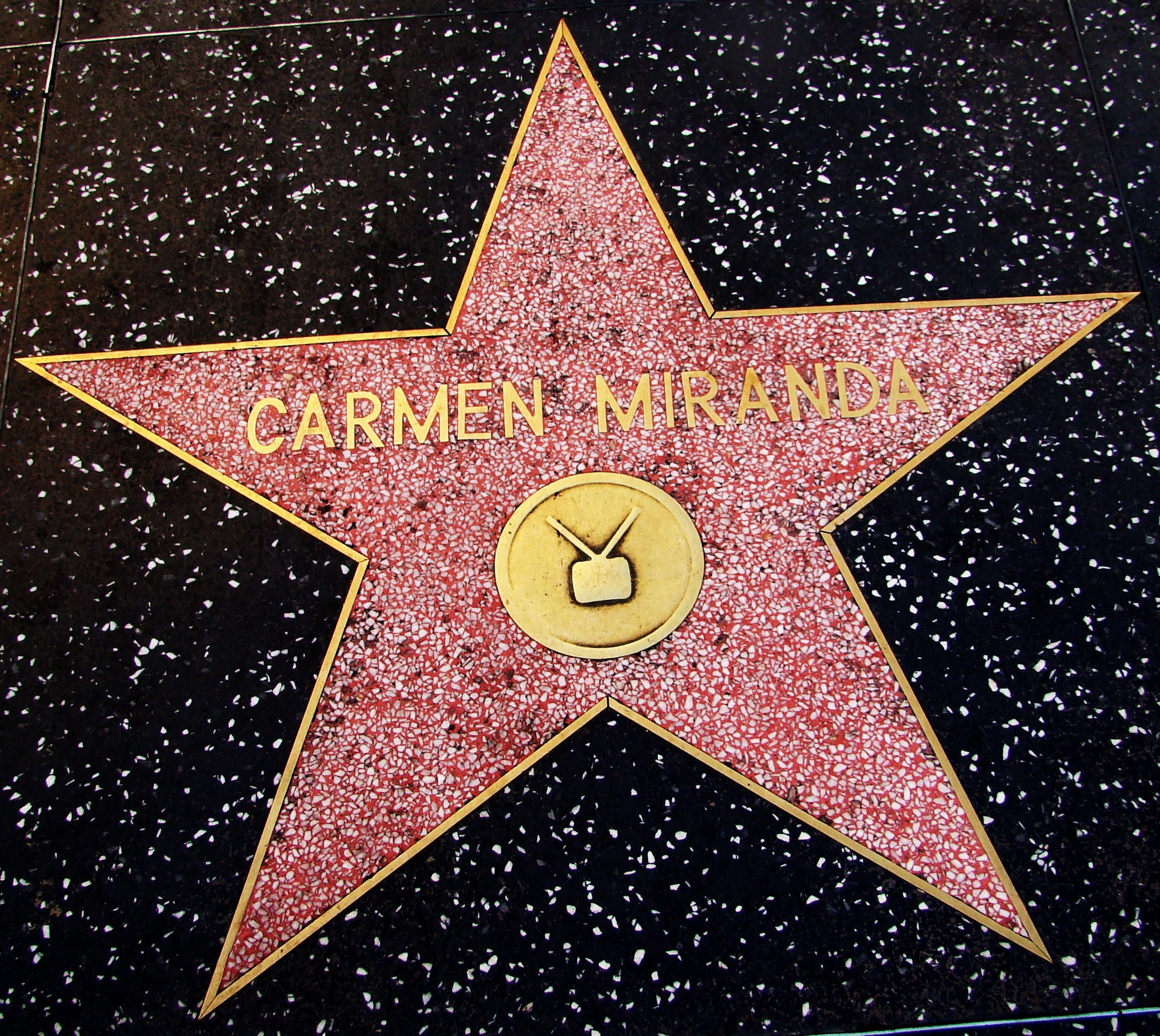 Hollywood Walk of Fame - Carmen Miranda, south side of the 6200 block of Hollywood Boulevard